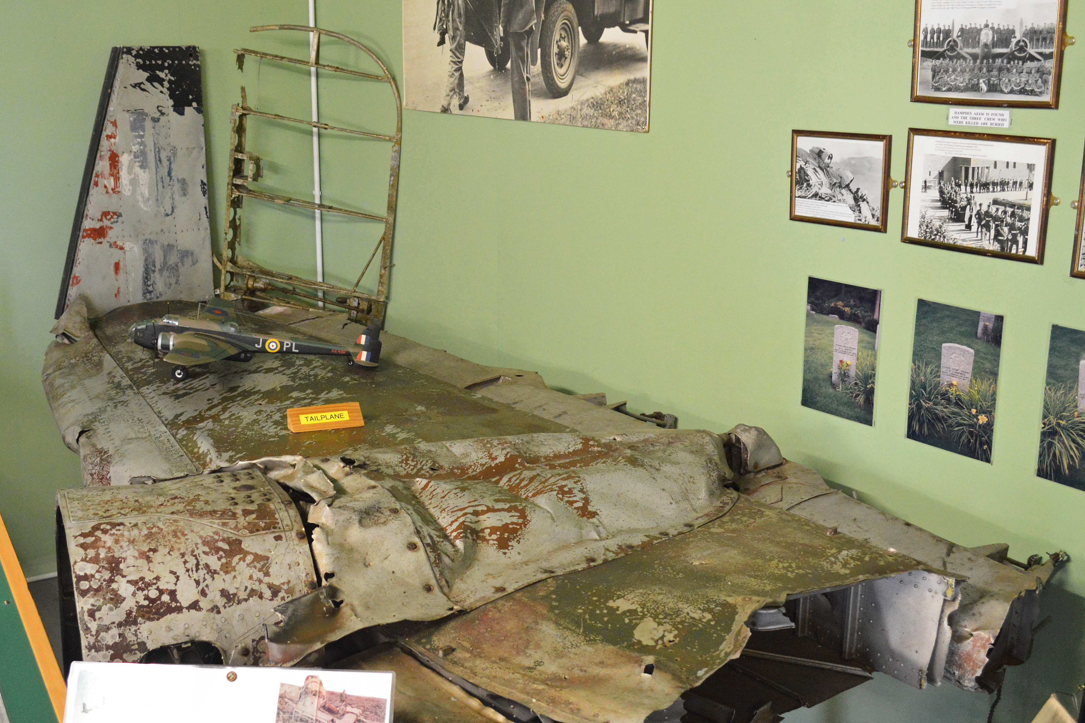 Built in Preston by English Electric and delivered in 1941, this Hampden was later converted into a 'TB.I' Torpedo Bomber and operated by No144sqn, RAF Coastal Command. It crashed in Sweden on the 4th September 1942, while on a transit flight to Russia to protect arctic convoys. At the time of the crash the aircraft had a crew of five. The impact is thought to have instantly killed Pilot Officer Bowler and Sergeants Jewett and Campbell, with Pilot Officer Evans and Corporal Sowerby miraculously surviving the impact. Briefly interned by the Swedish military, they were returned to the UK by the 21st September. The wreckage was recovered in 1976 and is now under restoration to static condition at the Lincolnshire Aviation Heritage Centre, East Kirkby, UK. 16-06-2014